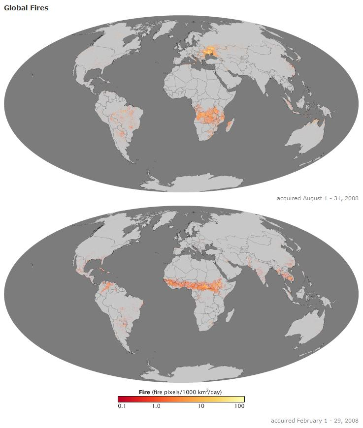 "The contrast between the two months is shown in this pair of images made from data collected by the Moderate Resolution Imaging Spectroradiometer (MODIS) on NASA’s Terra satellite. The top image shows all of the fires detected during August 2008, while the lower image shows February 2008. Dense fire concentrations are yellow, while more scattered fires are red."[1]